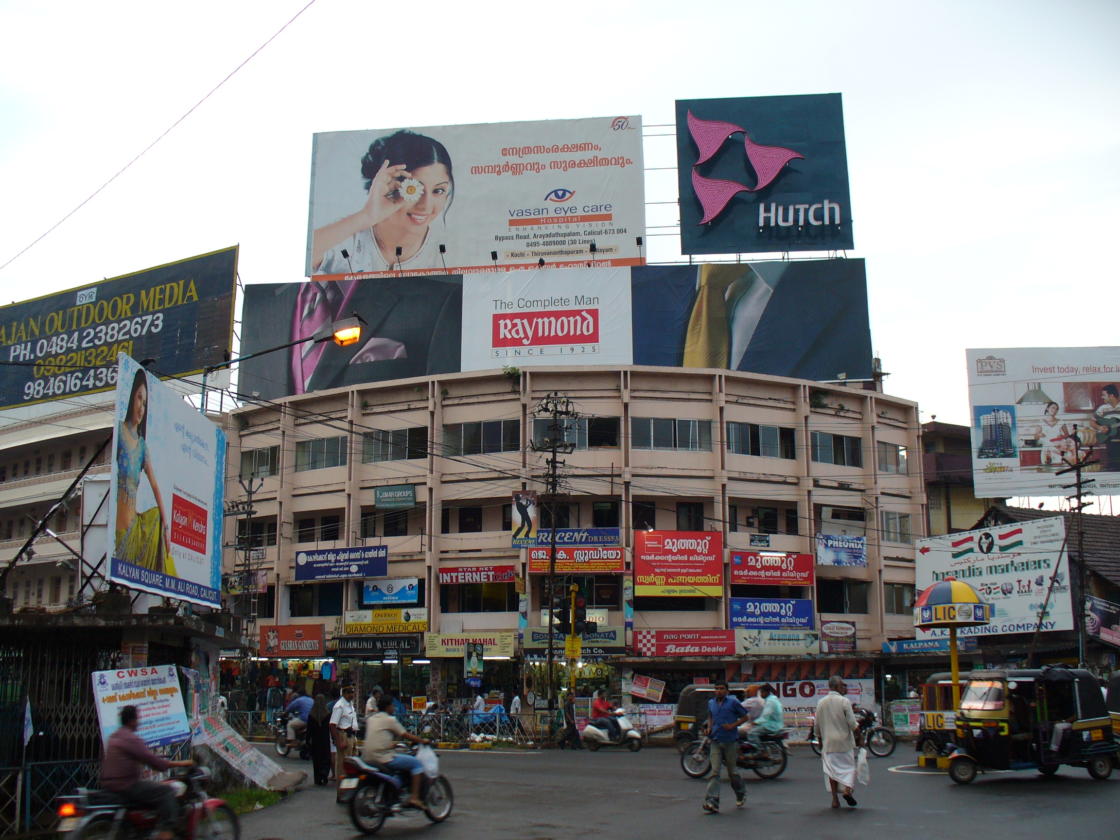 Billboards cover a building in Kozhikode, Kerala, India.